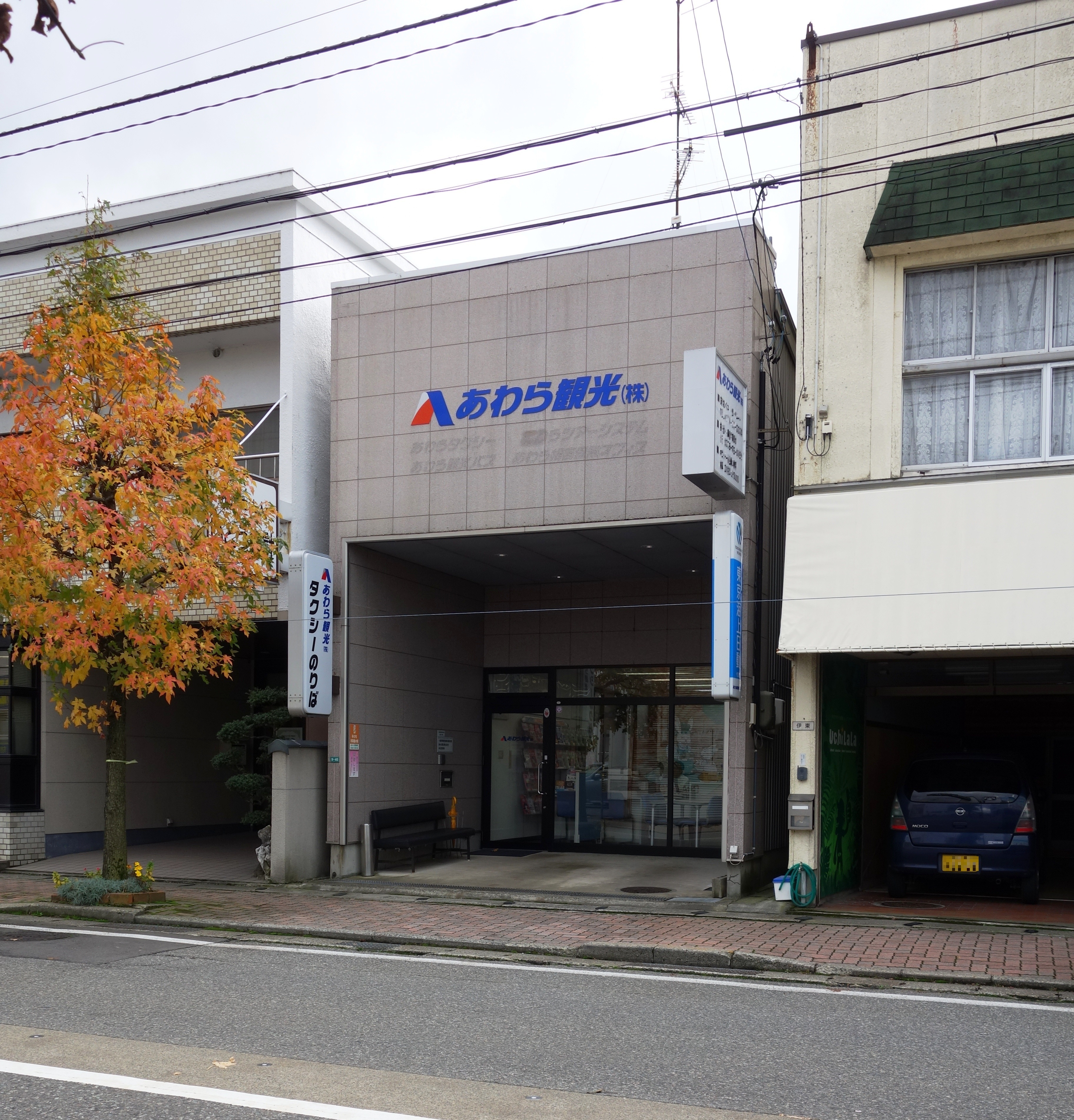 Awara Kanko, Awara City, Fukui Pref., Japan